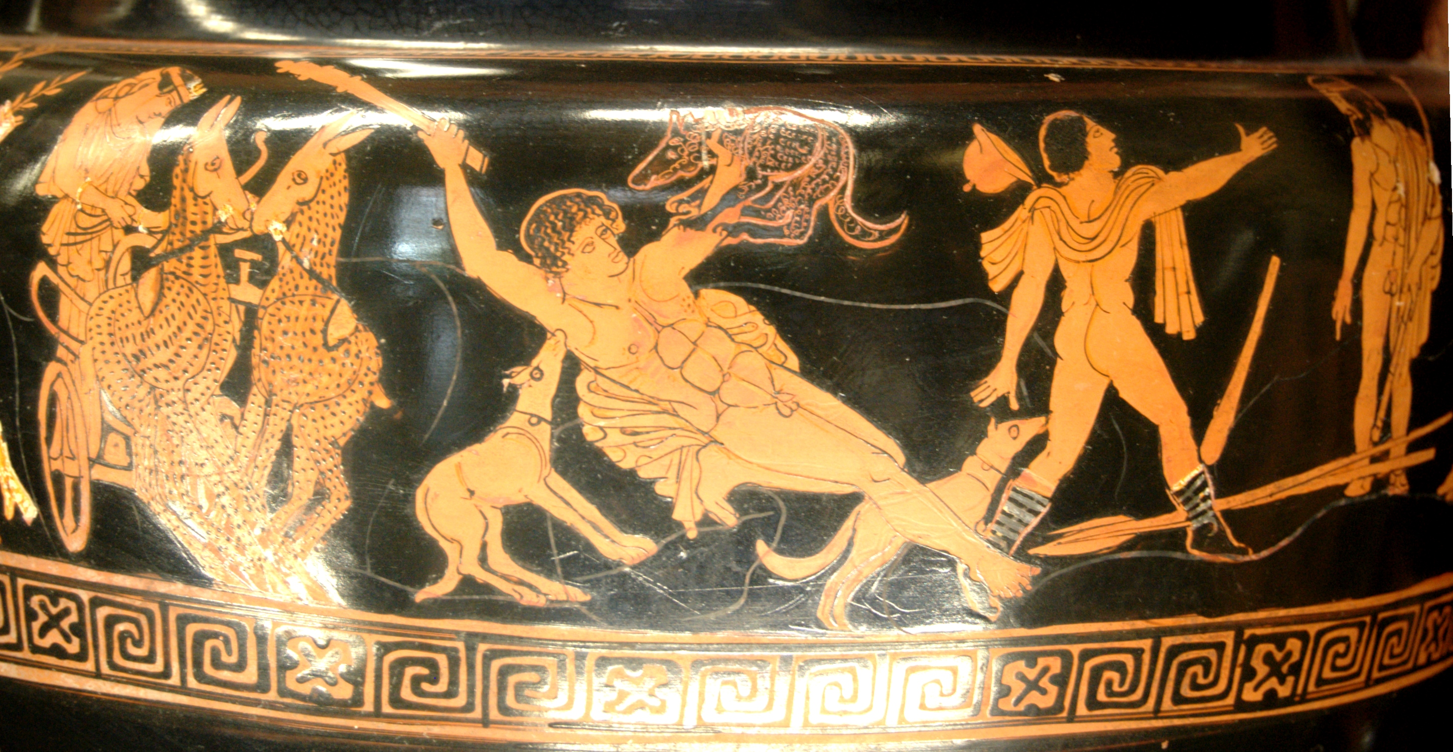 Actaeon's death. Artemis drives a chariot drawn by a team of deer. To the right a man reports Actaeon's death to his parents Aristaeus and Autonoe. The scene is probably based on Aeschylus' lost play The Toxitides, which dealt with the story of Actaeon. Side A from an Attic red-figure volute crater, ca. 450–440 BC.